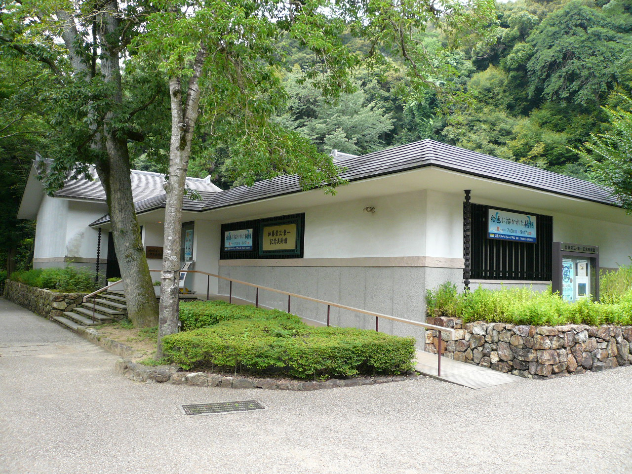 This building houses the Eizo and Toichi Memorial Art Museum. I took the picture in July 2007.